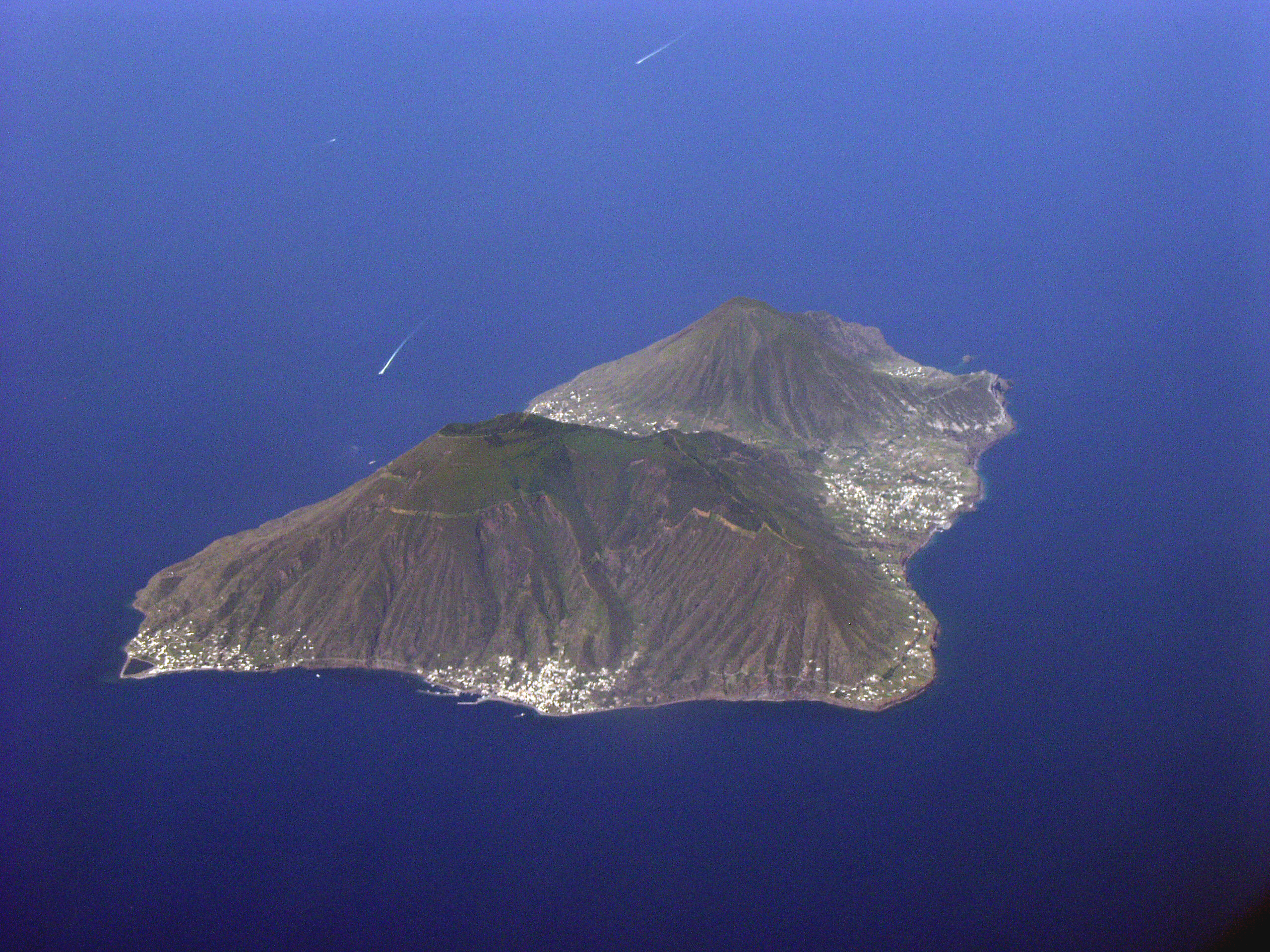 Aerial view of Salina Island. Monte Fossa delle Felci and Monte dei Porri.